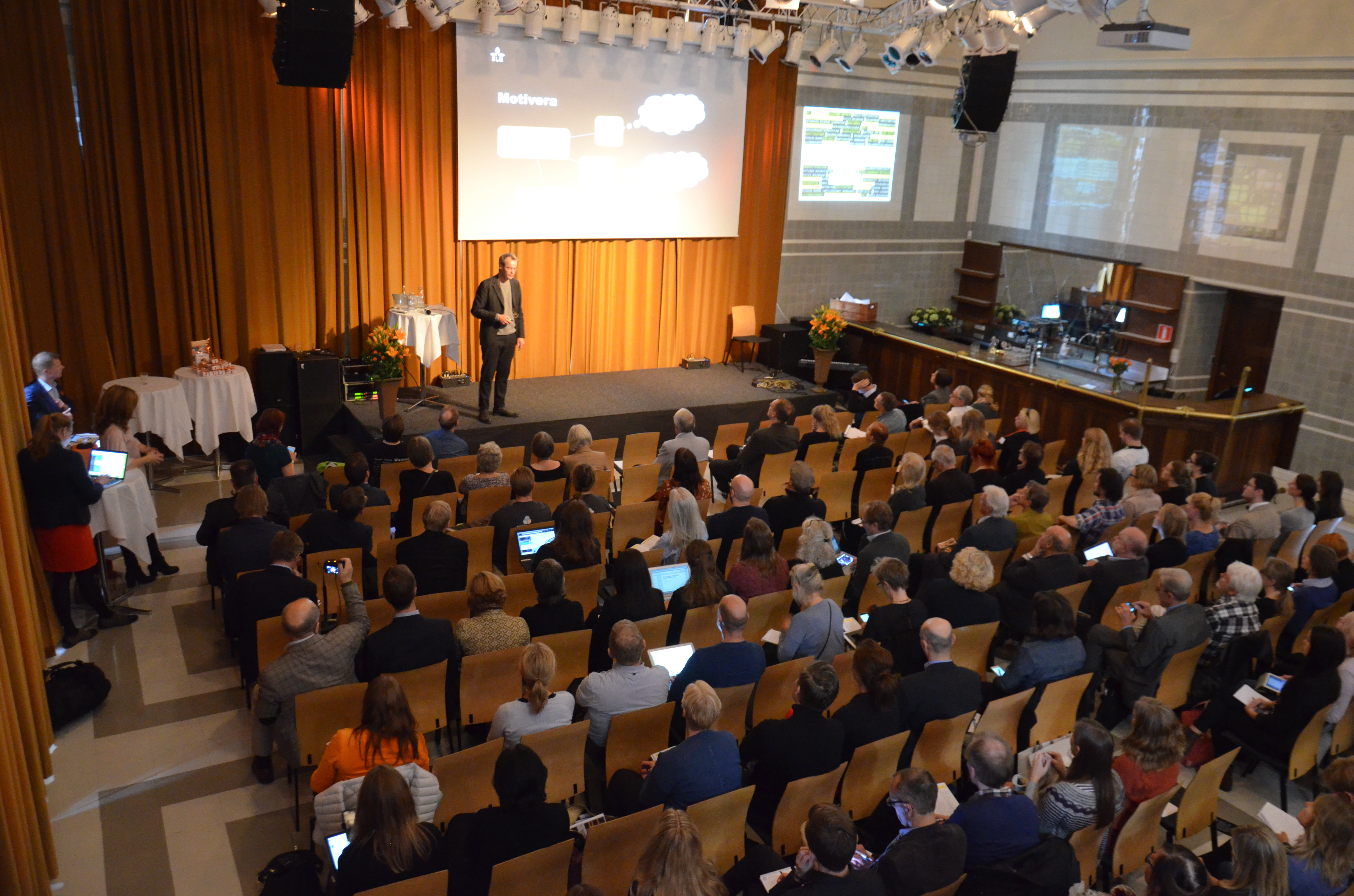 Conference, Vetenskap & Allmänhet, 12 October 2015, Bryggarsalen in Stockholm, Sweden